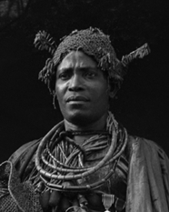 Visit of the Earl of Plymouth (right) to the Oba of Benin, Oba Akenzua II, Benin City, Nigeria. Oba Akenzua II holds the coral regalia of Oba Ovonramwen, returned by the British in 1938. Sir John Macpherson, Governor-General of Nigeria, stands on the left, (1935). Glass plate (Chief S. O. Alonge Collection, Eliot Elisofon Photographic Archives)